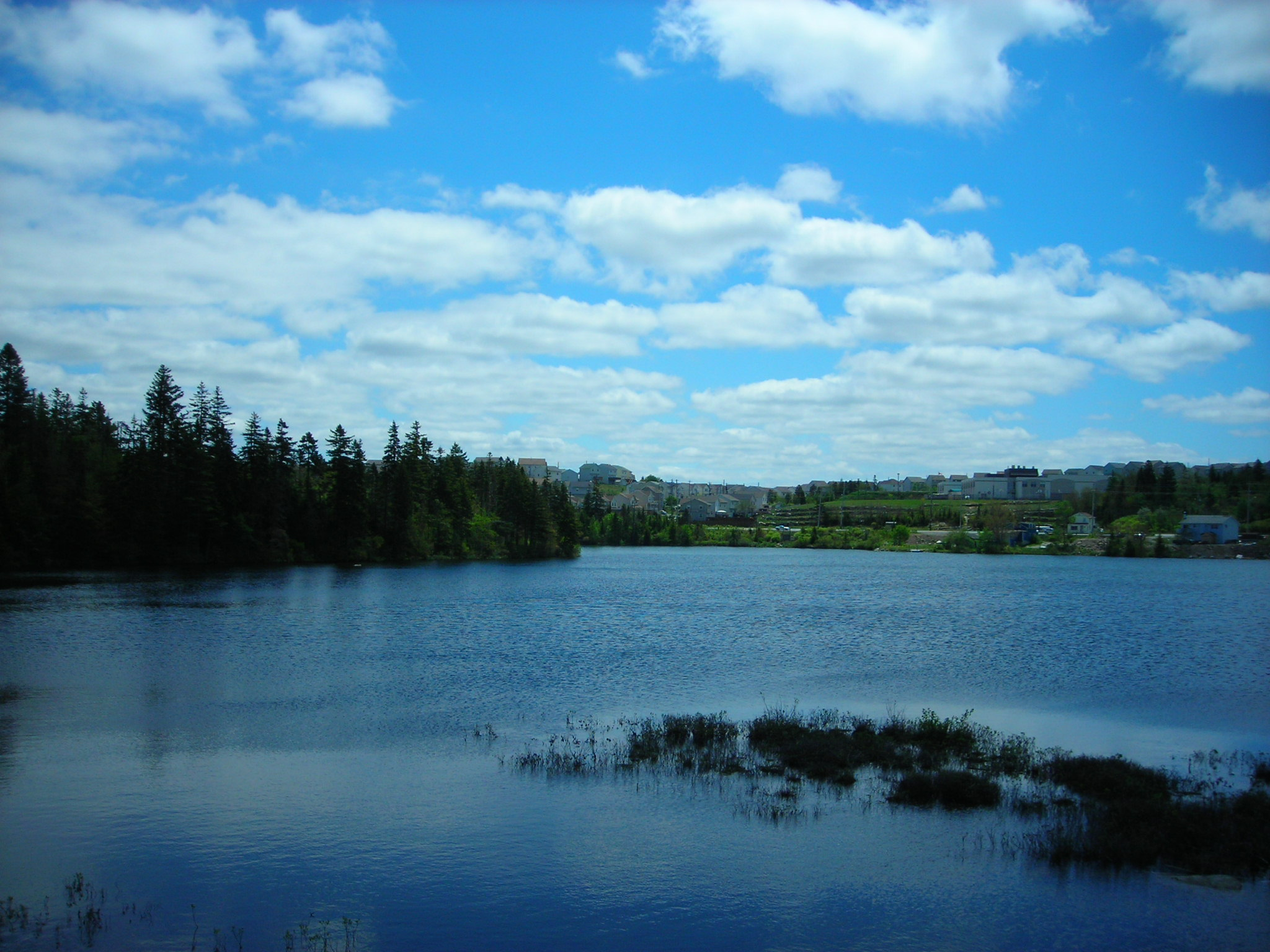 Lovett Lake in the Halifax Regional Municipality, Nova Scotia, Canada. View direction South (to St. Margarets Bay road) form near the start of the BLT trail.